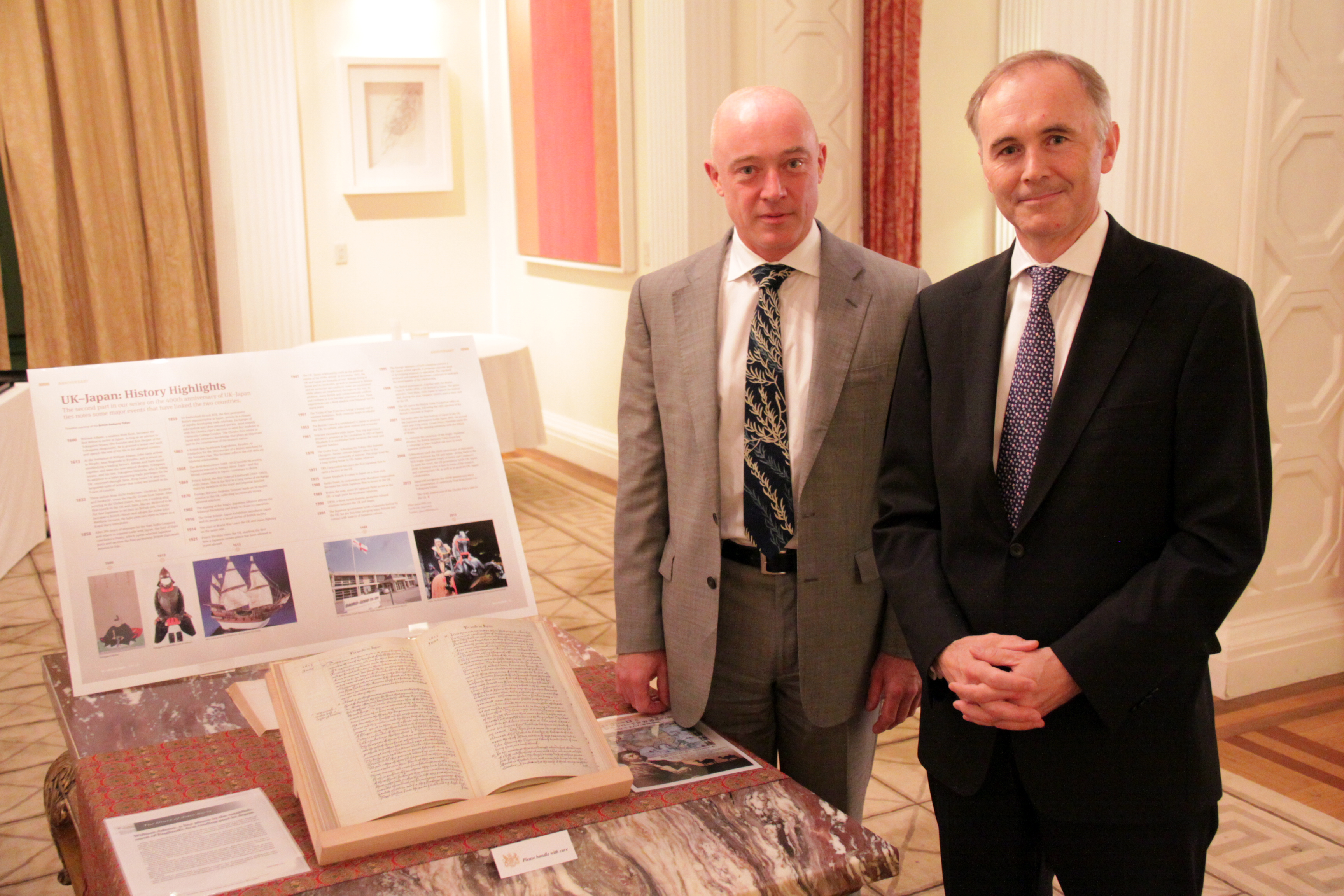 Tim Hitchens, Ambassador to Japan, saw a replica of John Saris' diary with Timon Screech, Professor of the School of Oriental and African Studies, University of London, at the British Ambassador's Residence in Tokyo on June 11, 2013.